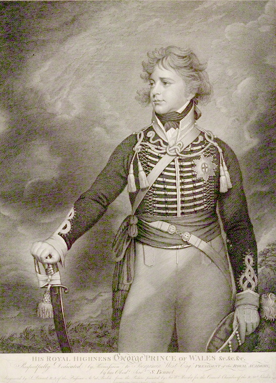 George IV of the United Kingdom (1762-1830; r. 1820-1830)